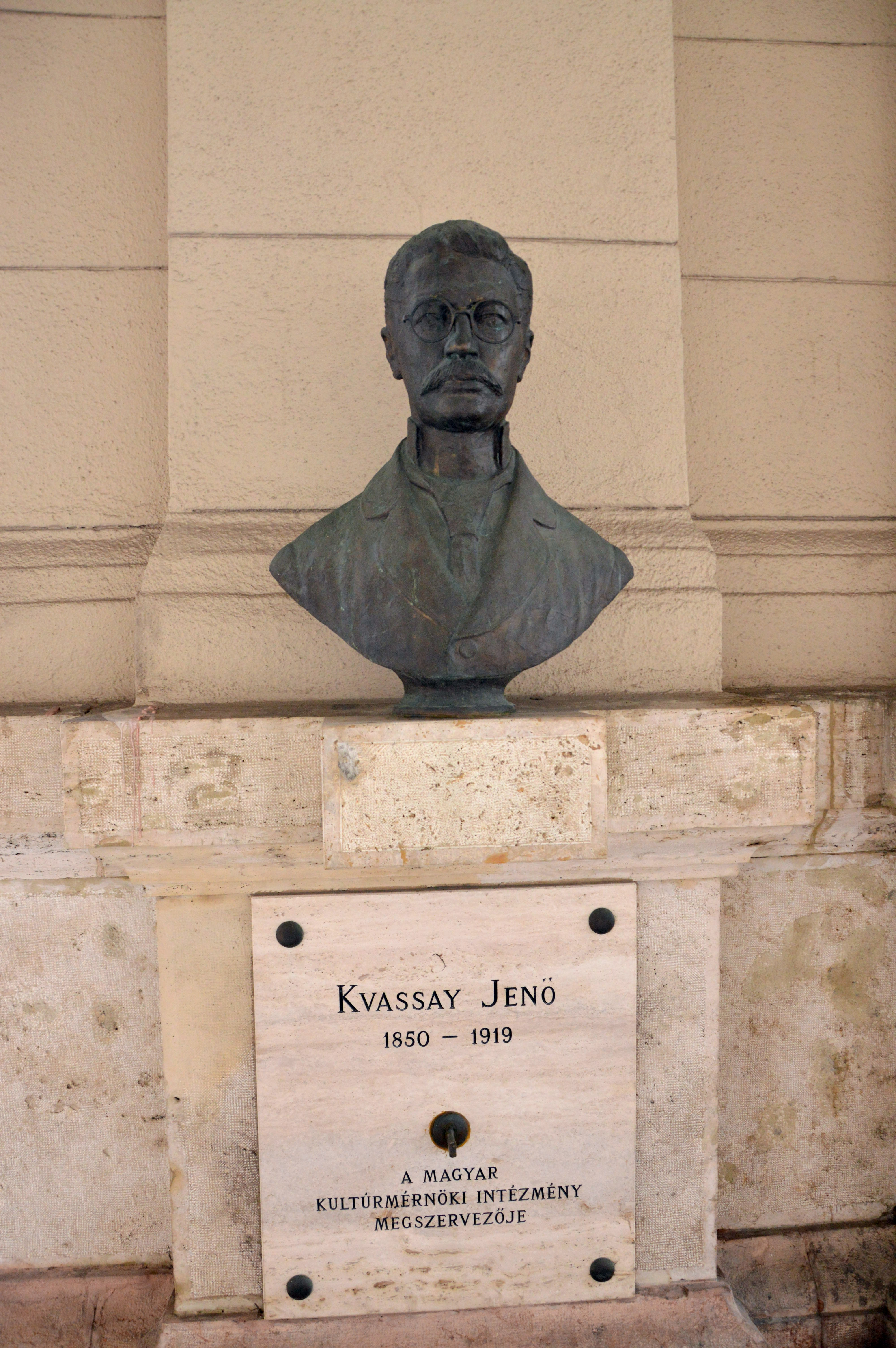 Bust of Jenő Kvassay in the arcade of the Hungarian Ministry of Agriculture in Kossuth Lajos tér, Budapest, Hungary.